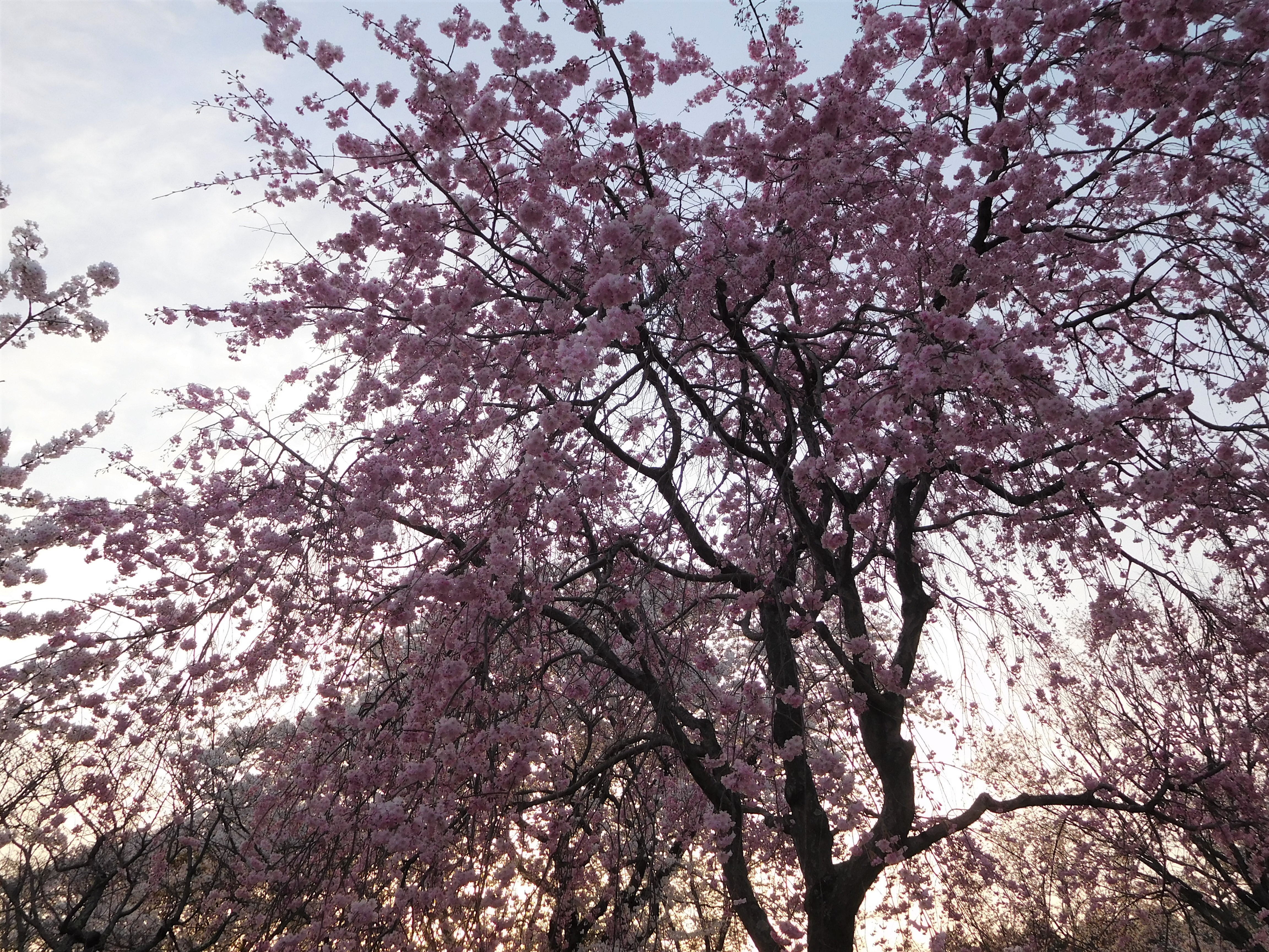 These are cherry blossoms of Sakuragawa, which is located in City of Sakuragawa, Ibaraki, Japan.